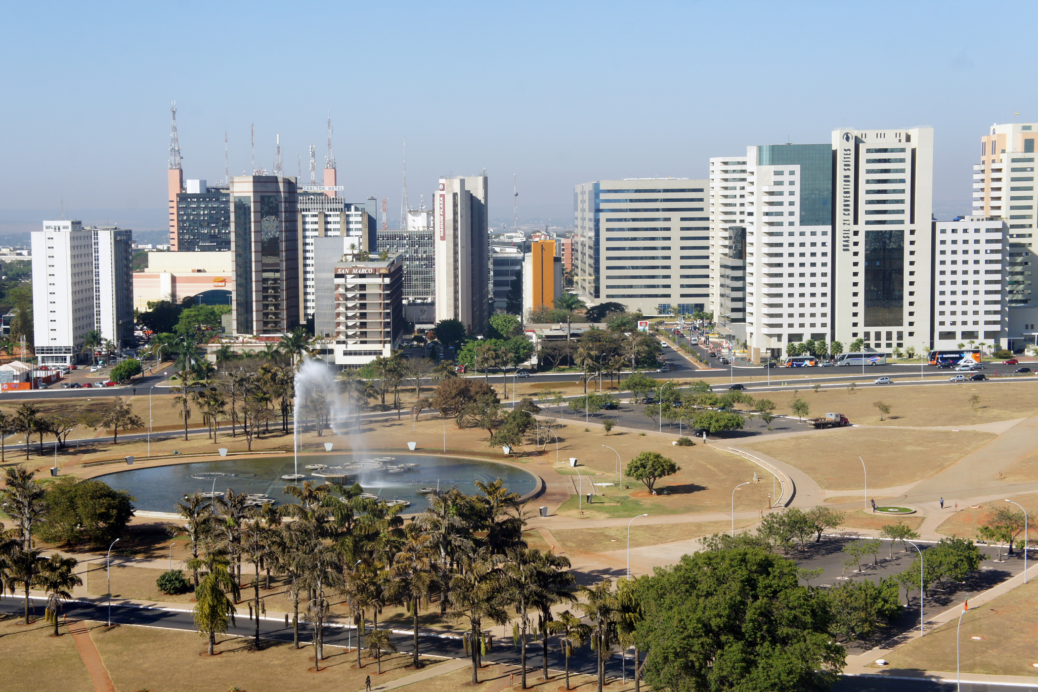 Setor Hoteleiro Sul, Brasilia, D.F., Brazil